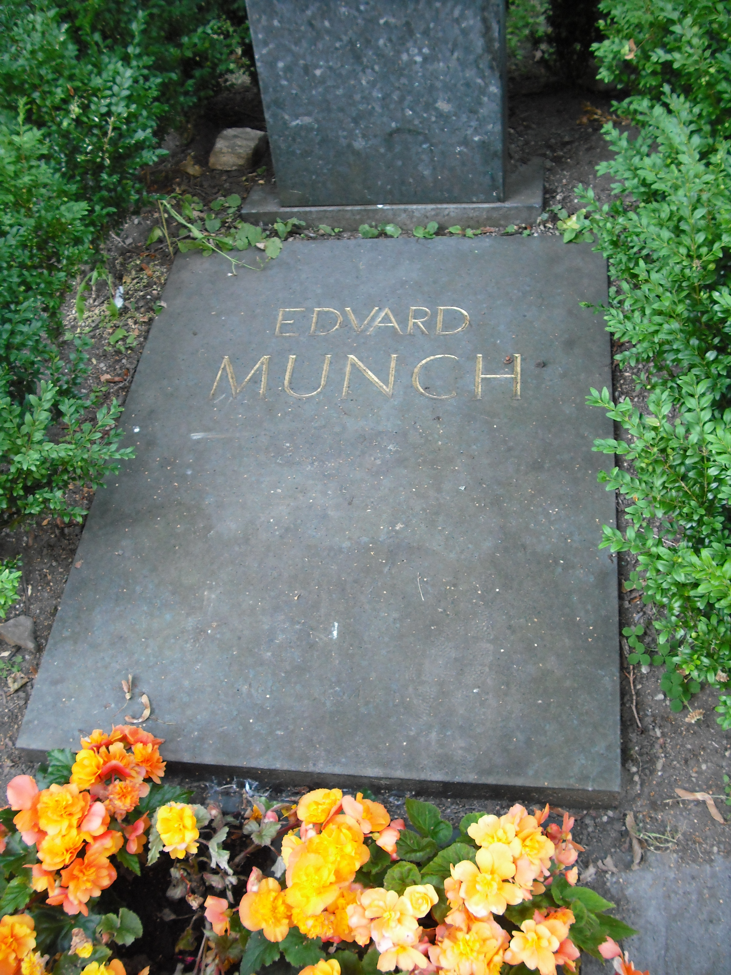 Grave of Edvard Munch, Vår Frelsers gravlund, Oslo